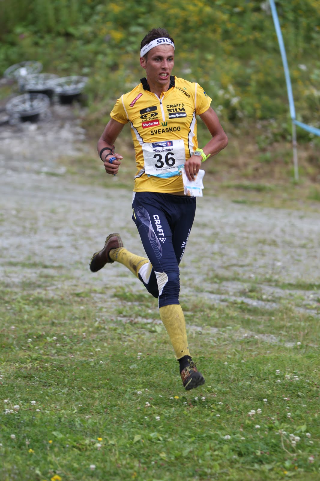 Peter Öberg at World Orienteering Championships 2010 in Trondheim, Norway